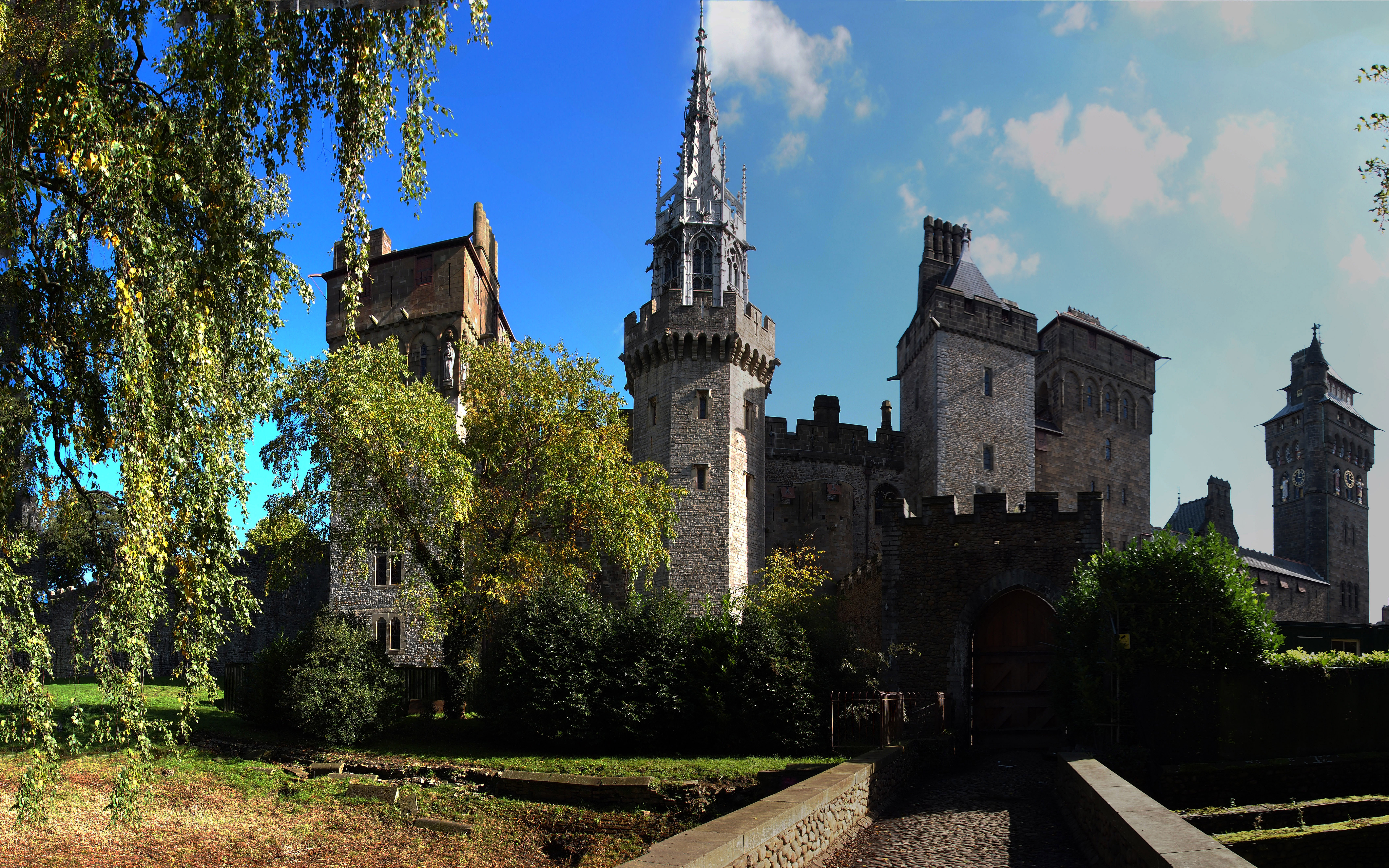 Cardiff castle from bute park arboretum.